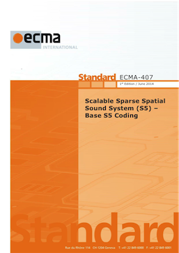 ECMA-407 Cover